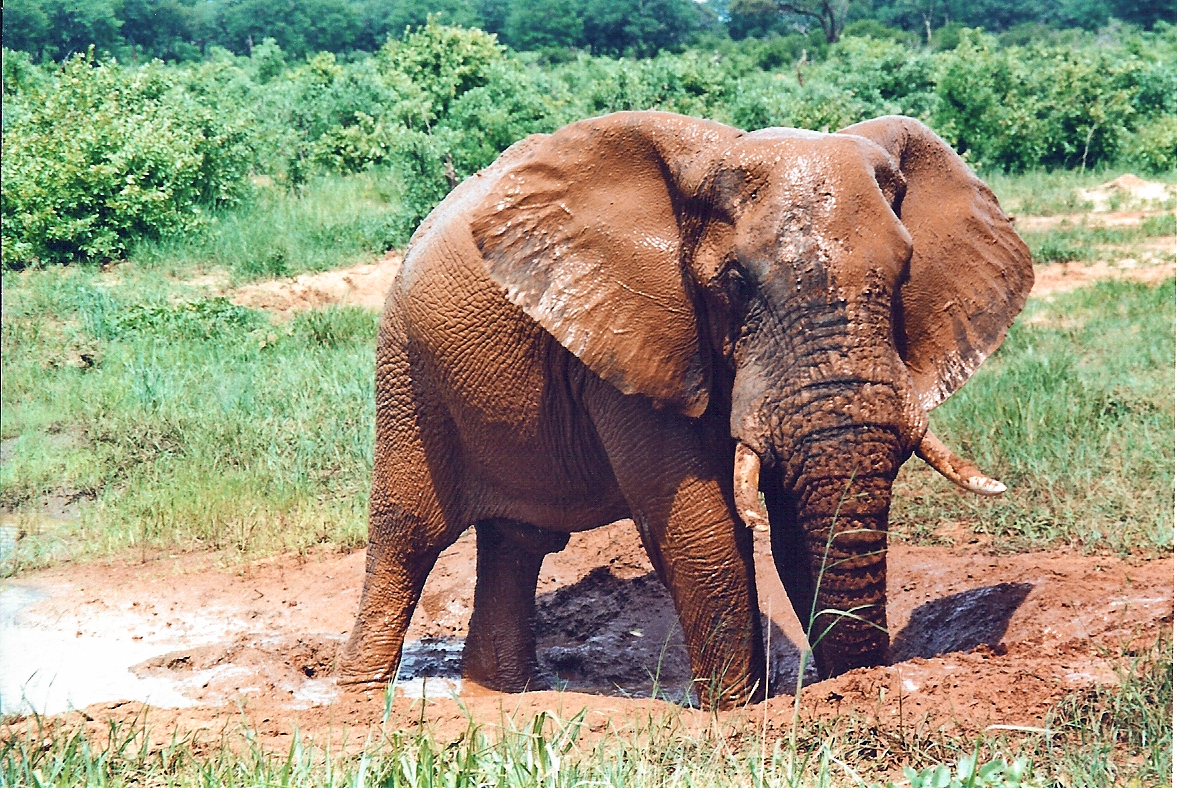 Male elephant mudbathing in Hwange National Park, Zimbabwe. Taken from a distance of about 10 m, Dec 1999 on film. One of five photos (see below).